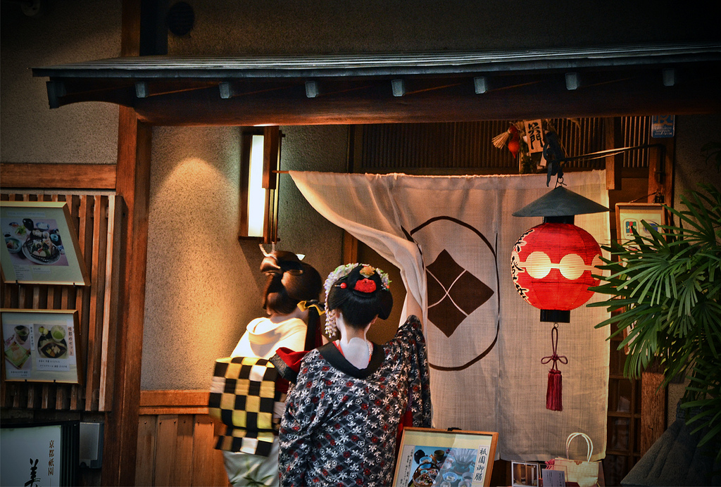 A first-year maiko is pulling the curtain of a teahouse for her geiko sister. Gion.